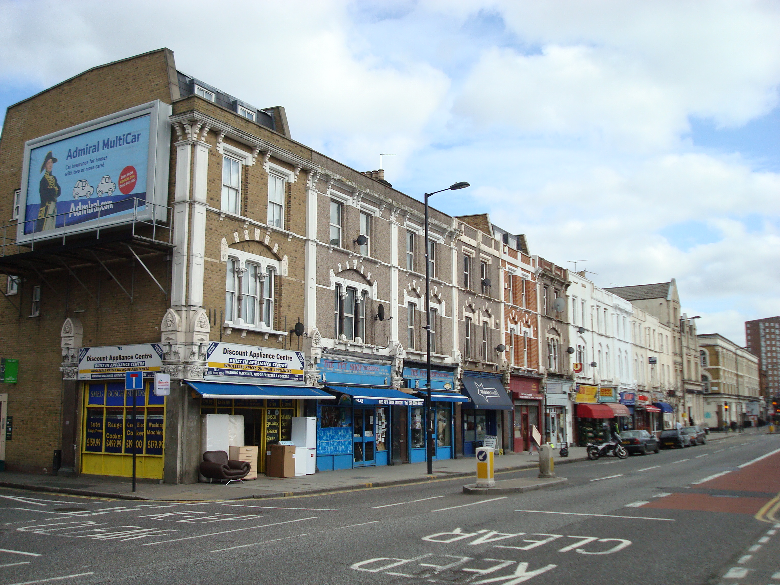 Shops, Amhurst Road, London E8